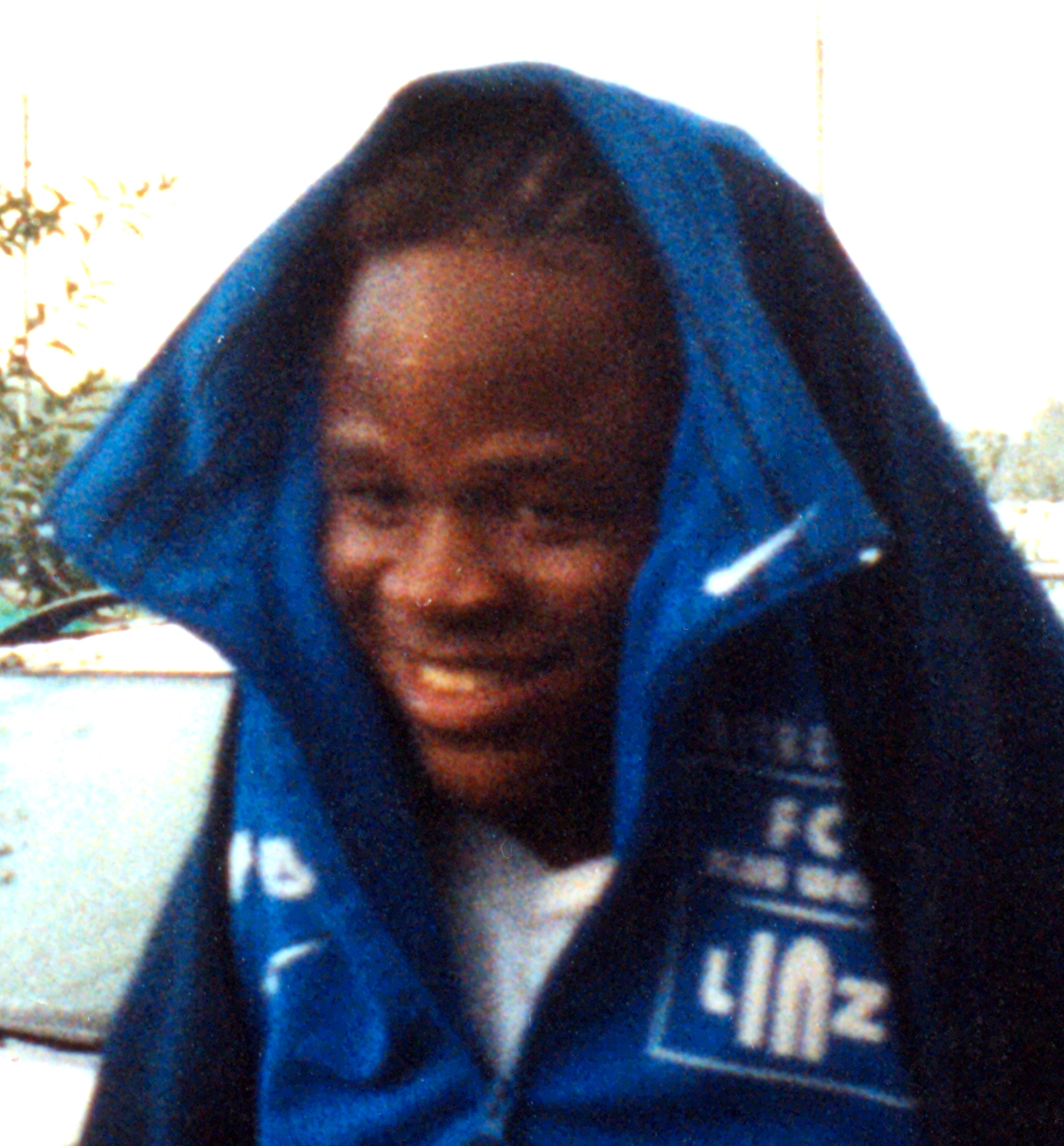 Harrison Kennedy as player of FC Blau-Weiß Linz just before a pre-season friendly between ASKÖ Doppl-Hart and FC Blau-Weiß Linz 1b (Reserves)on 8 August 2005